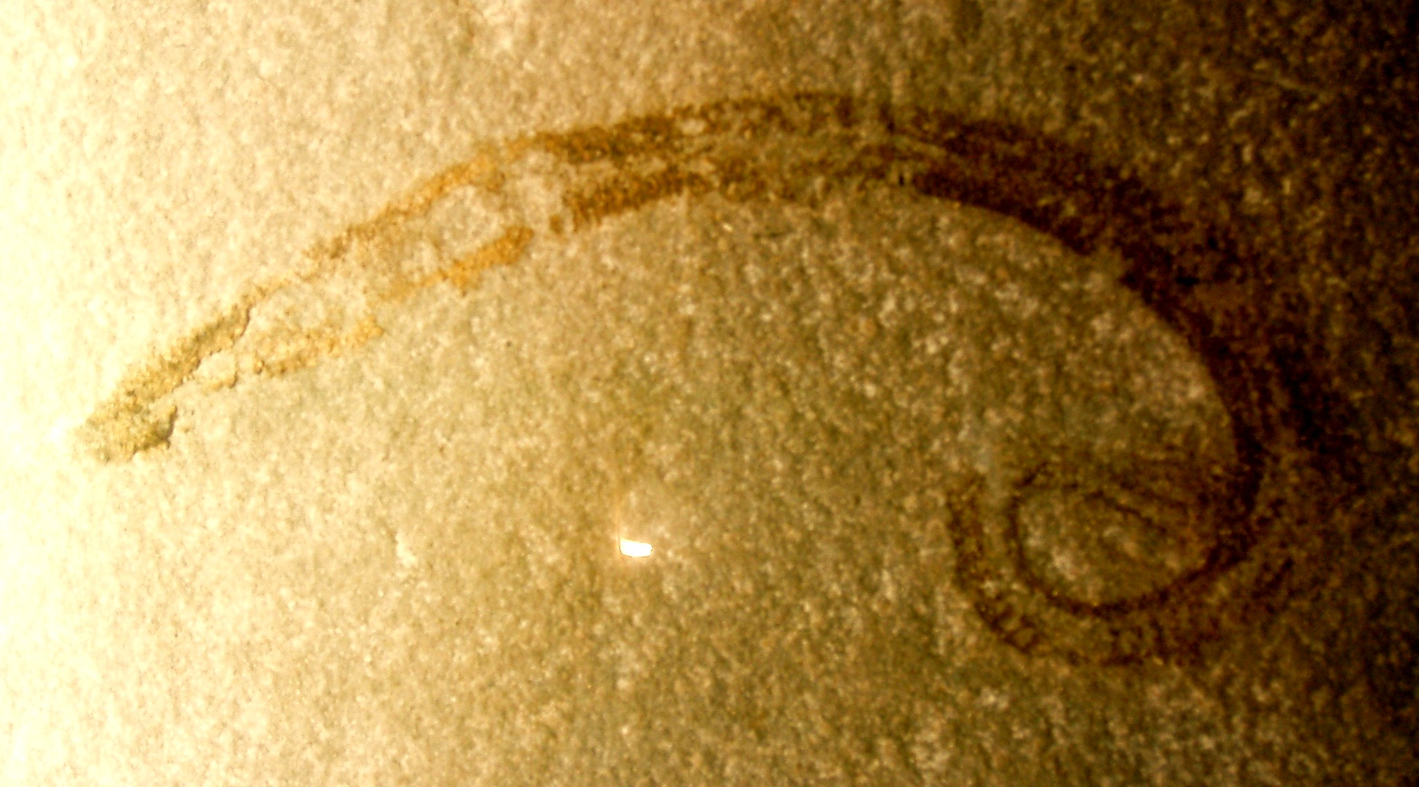 Fossil of Eophasma jurasicum, an extinct nematode